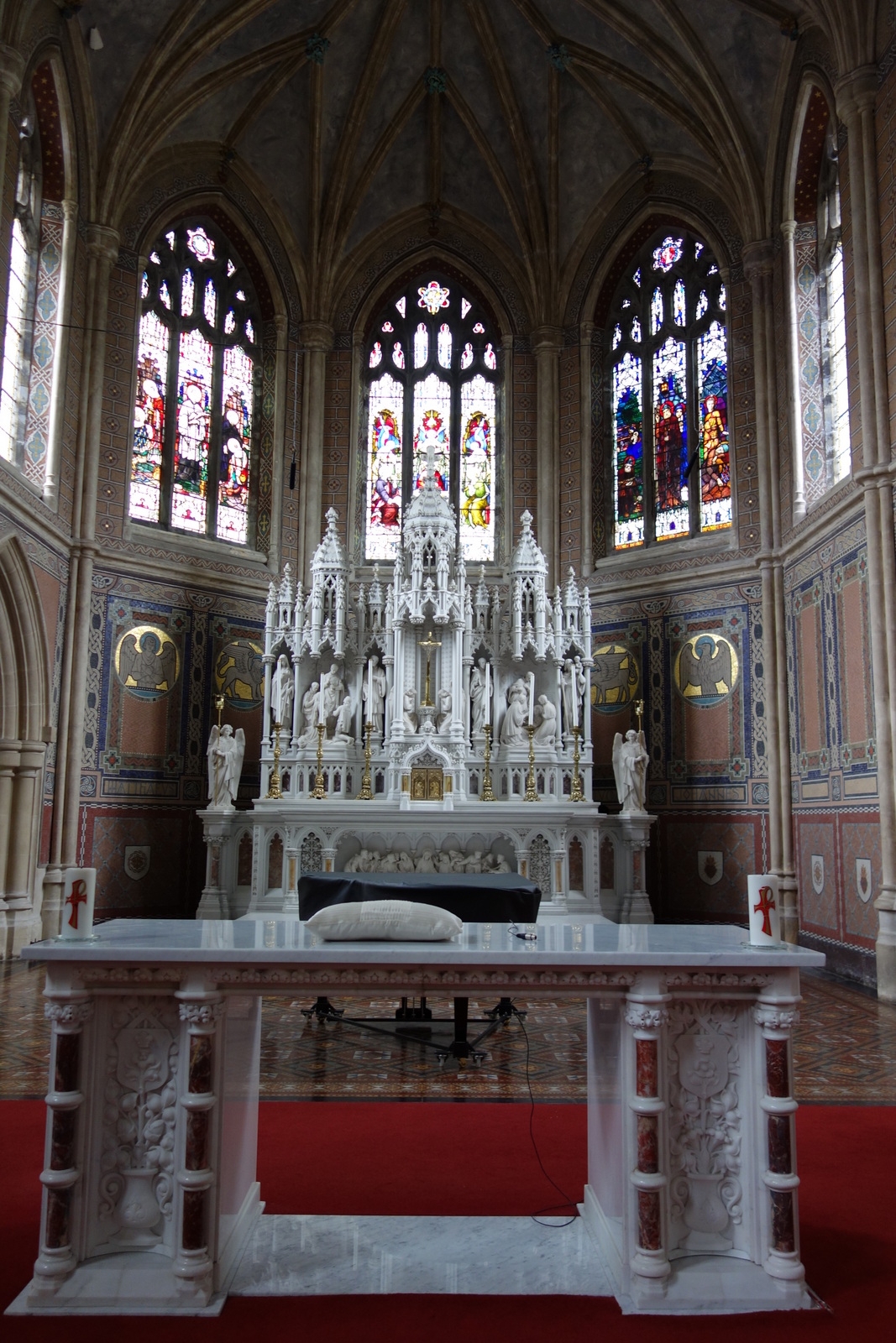 Clongowes Wood College is a voluntary secondary boarding school for boys, located near Clane in County Kildare, Ireland. Founded by the Society of Jesus (Jesuits) in 1814, it is one of Ireland's oldest Catholic schools, and featured prominently in James Joyce's semi-autobiographical novel A Portrait of the Artist as a Young Man. One of five Jesuit schools in Ireland, it had 450 students in 2011/2012 when the fees were €16800 per annum